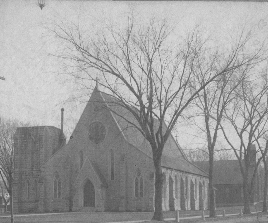 Christ Episcopal Church Red Wing before the steeple in mid-1800s